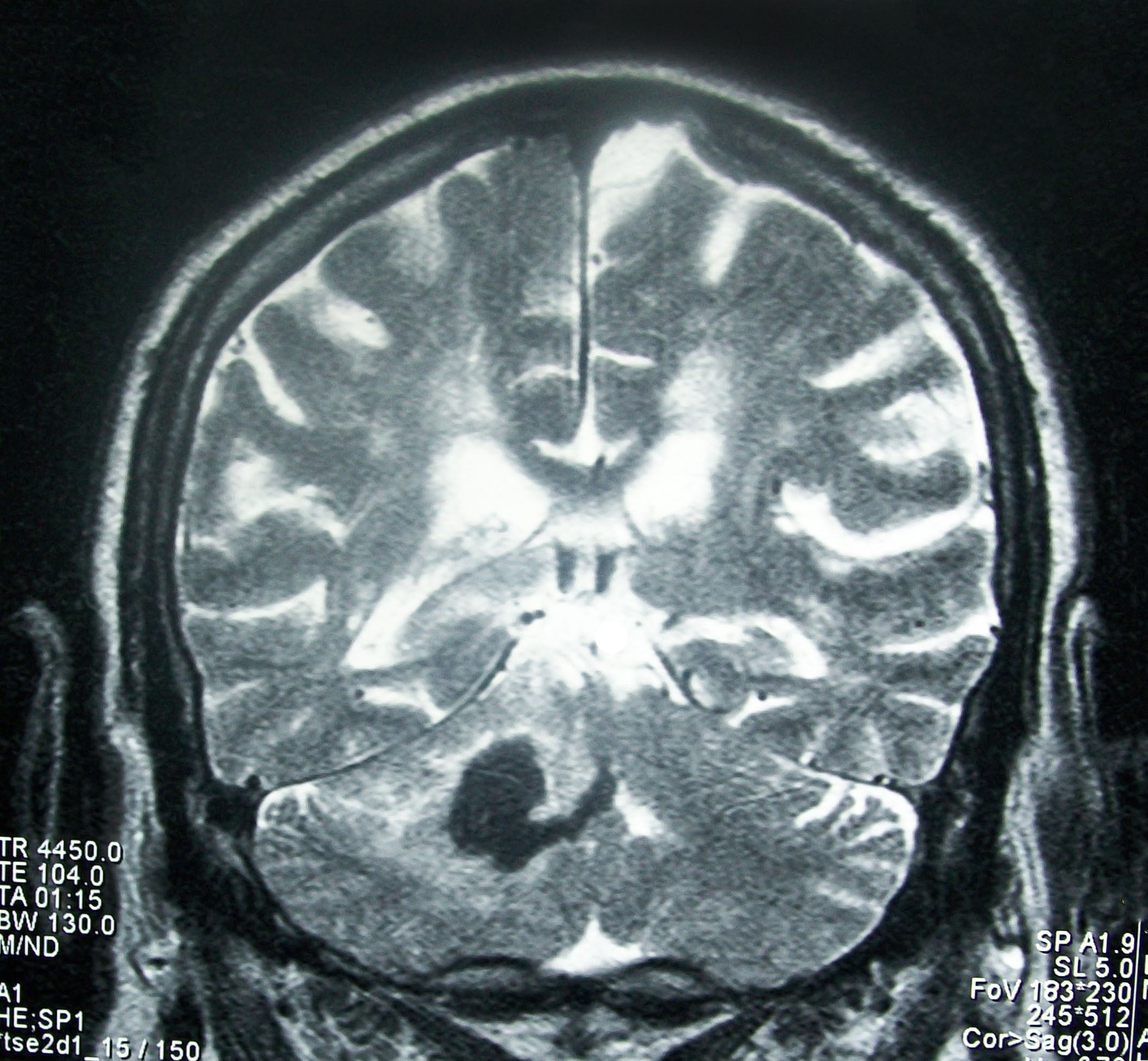 Head MRI showing deep intracerebral hemorrhage (cerebellum). This is an edited version of the source image used in the "Anatomist" app and shared here under the terms of the source image's Share Alike Creative Commons license.